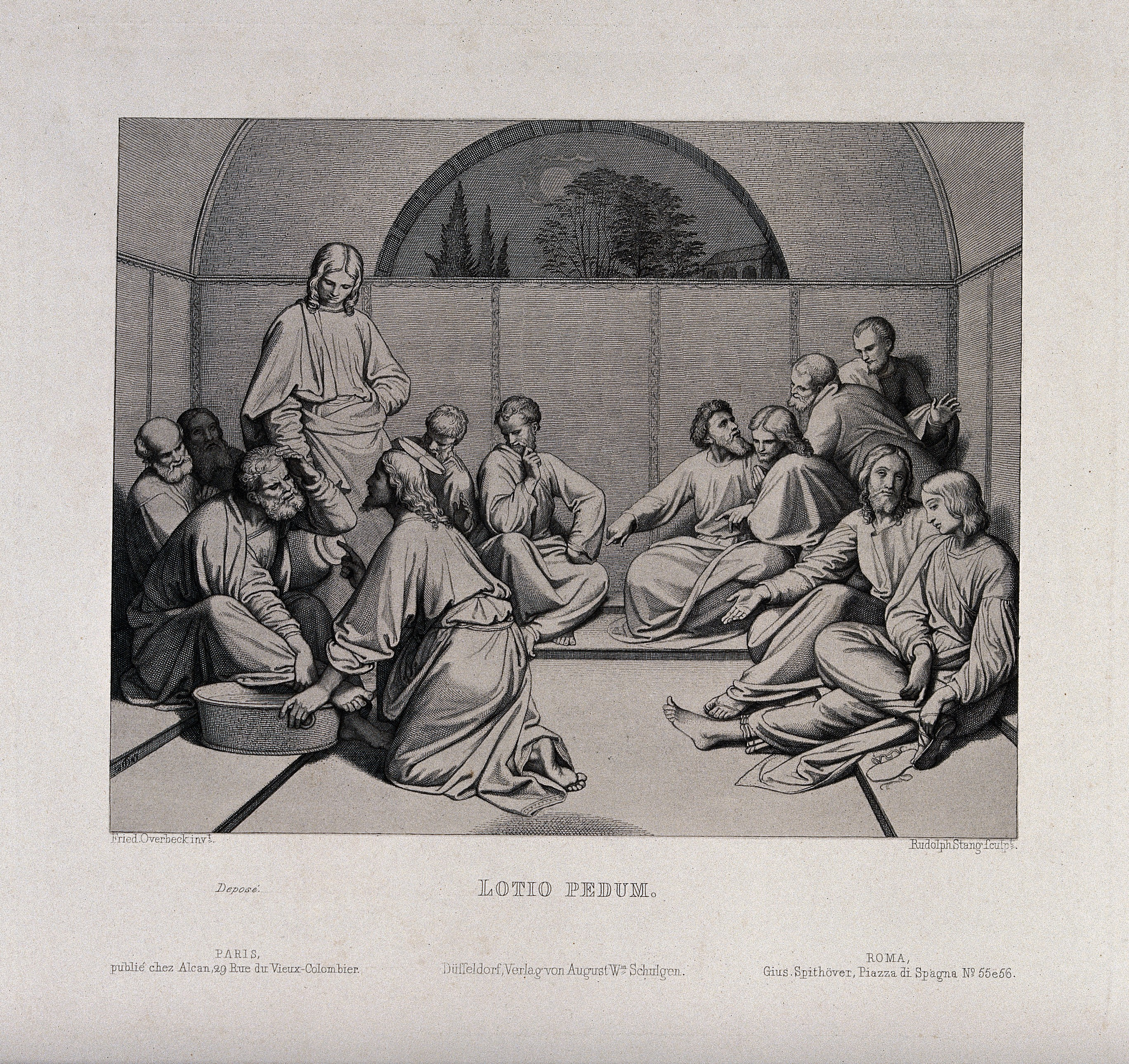 Christ washes the feet of the apostles. Etching by R. Stang after J.F. Overbeck, 1847. Iconographic Collections Keywords: Jesus Christ; Johann Friedrich Overbeck; Rudolph Stang